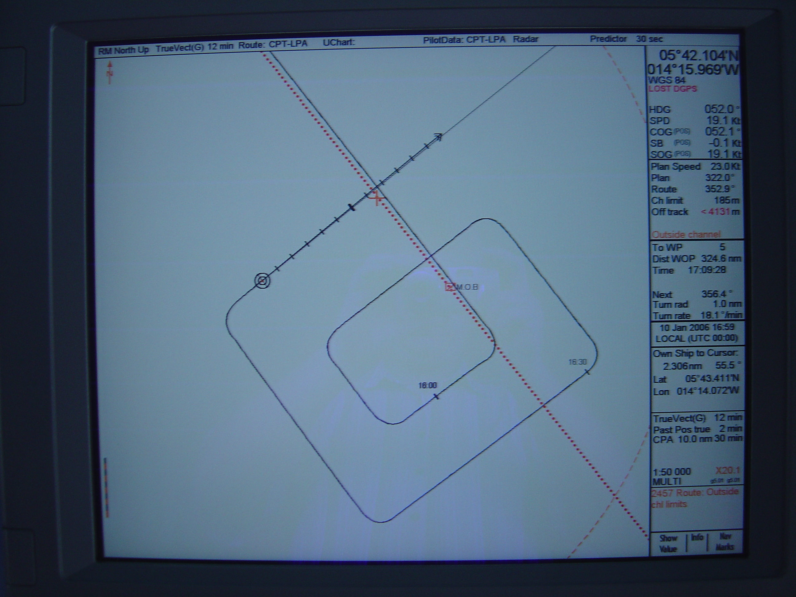 Photo of ECDIS: IAMSAR search pattern. Made during MOB-drill onboard M/V "P&O Nedlloyd Heemskerck" in the Gulf of Guinea